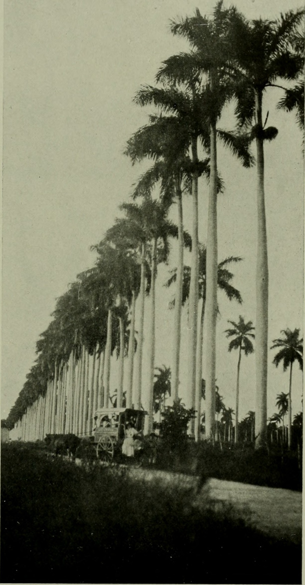 Original caption: Royal palms near Aguacate. These are symbolic of Cuba; like regiments of grenadiers they outline the plantations in long lines that fade away in perspective Title: The American Museum journal Year: c1900-(1918) (c190s) Authors: American Museum of Natural History Subjects: Natural history Publisher: New York : American Museum of Natural History